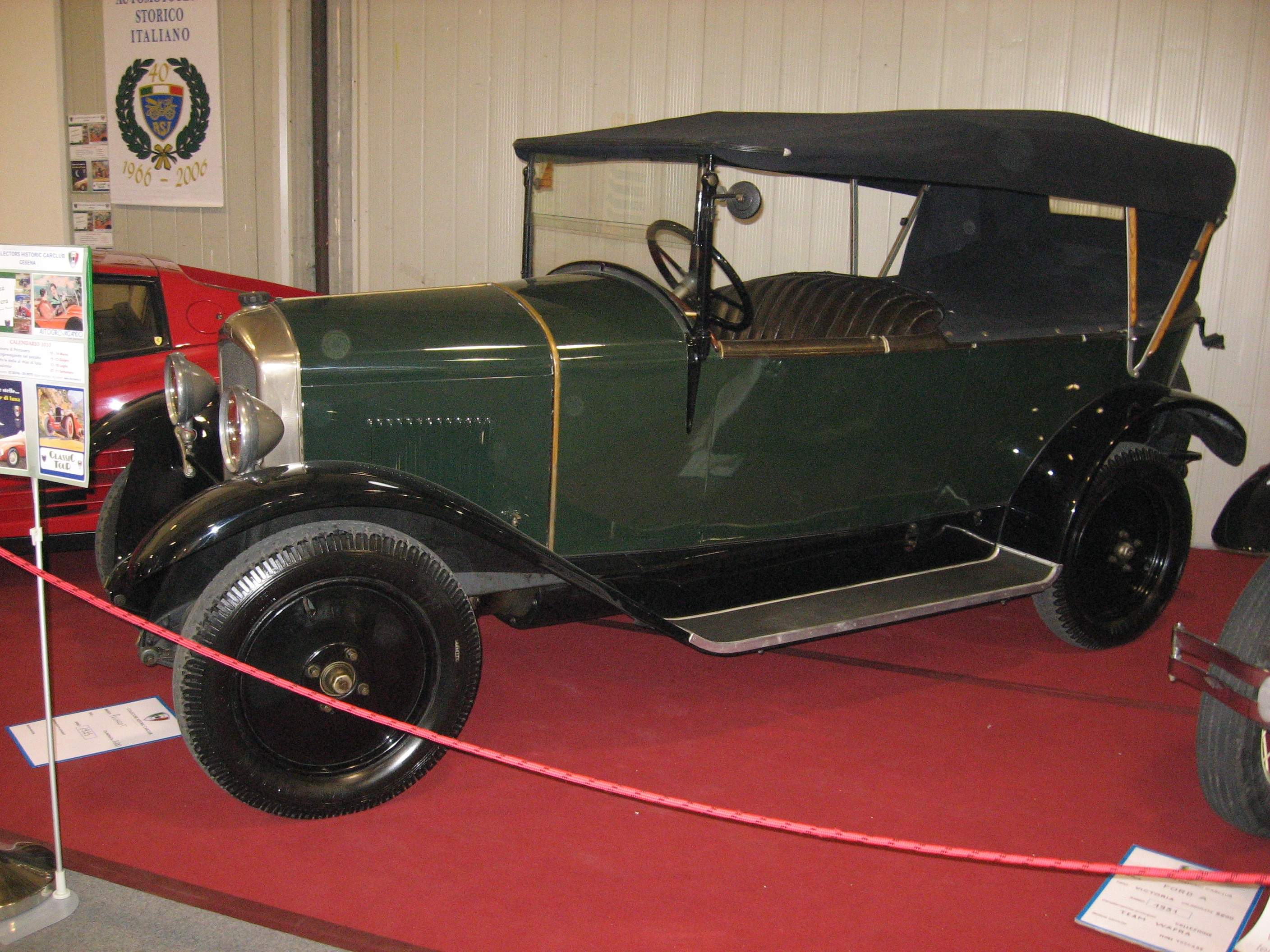 Subject: Peugeot ype 181 Author: Luc106 Date:November 28th, 2009 Event: Marke Retrò 2009 Place/Country: Cesena (FC), Italy I release all rights in the public domain.